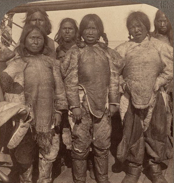 Stereo image. Women of the Inuit people at Kap York, Greenland.